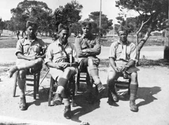 Captain Frederick Baker (3rd from left) with members of 28 (Maori) Battalion. Captain F Baker with members of 28 (Maori) Battalion. New Zealand. Department of Internal Affairs. War History Branch :Photographs relating to World War 1914-1918, World War 1939-1945, occupation of Japan, Korean War, and Malayan Emergency. Ref: DA-14214-F. Alexander Turnbull Library, Wellington, New Zealand.